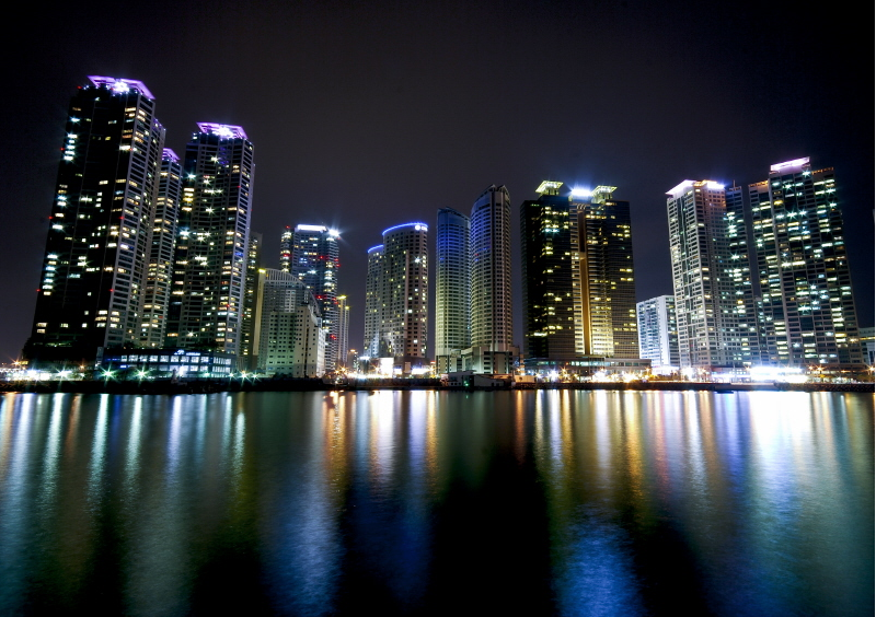 Night view of Haeundae